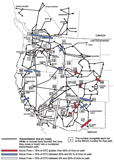 Current and Projected Congestion in the Western Interconnection Region in 2006